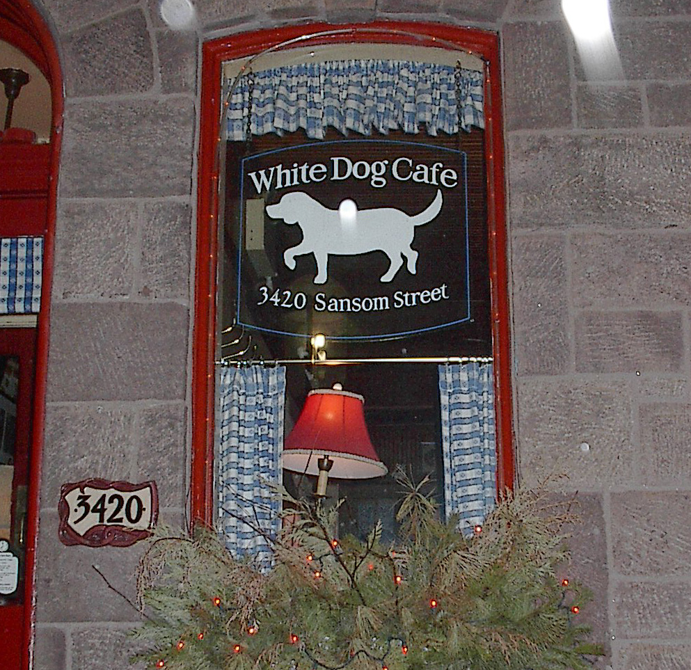 The exterior of the White Dog Cafe in Philadelphia, Pennsylvania, United States